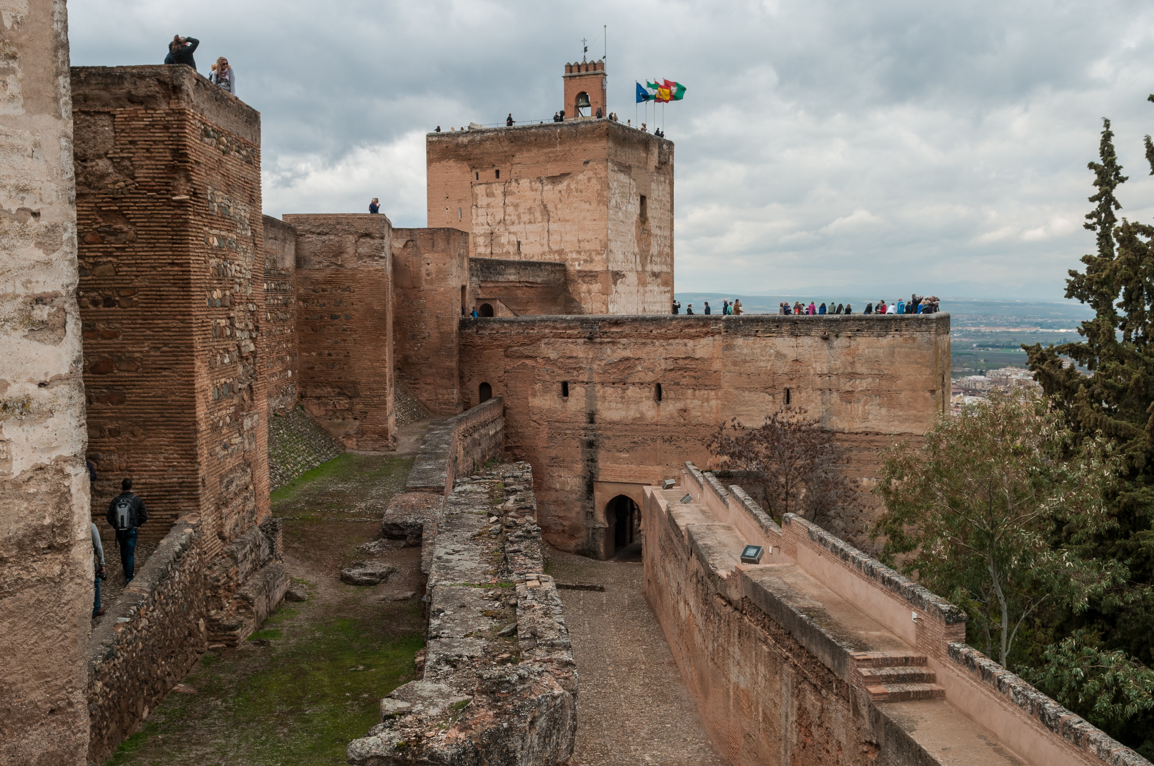 Alhambra, the complete form of which was Calat Alhambra (الْقَلْعَةُ ٱلْحَمْرَاءُ, trans. al-Qal‘at al-Ḥamrā’, "the red fortress"), is a palace and fortress complex located in Granada, Andalusia, Spain. It was constructed during the mid 14th century by the Moorish rulers of the Emirate of Granada in al-Andalus, occupying the top of the hill of the Assabica on the southeastern border of the city of Granada. The Alhambra's Moorish palaces were built for the last Muslim Emirs in Spain and its court, of the Nasrid dynasty. After the Reconquista (reconquest) by the Reyes Católicos ("Catholic Monarchs") in 1492, some portions were used by the Christian rulers. The Palace of Charles V, built by Charles V, Holy Roman Emperor in 1527, was inserted in the Alhambra within the Nasrid fortifications. After being allowed to fall into disrepair for centuries, the Alhambra was "discovered" in the 19th century by European scholars and travelers, with restorations commencing. It is now one of Spain's major tourist attractions, exhibiting the country's most significant and well known Islamic architecture, together with 16th-century and later Christian building and garden interventions. The Alhambra is a UNESCO World Heritage Site, and the inspiration for many songs and stories. Alhambra. (2012, April 10). In Wikipedia, The Free Encyclopedia. Retrieved 15:33, April 14, 2012, from